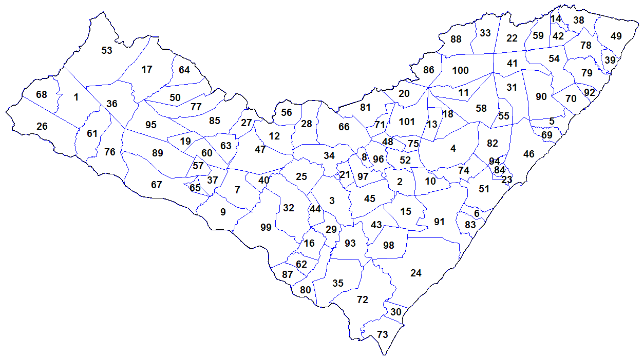 Map of the municipalities of the state of Alagoas, Brazil. Created by Rarelibra 18:55, 24 August 2006 (UTC) for public domain use. Created using MapInfo Professional v8.5 and various mapping resources.